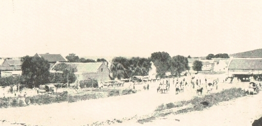 Nelspoort 1868. An assembly of riders in the square as wagons load wool for export.